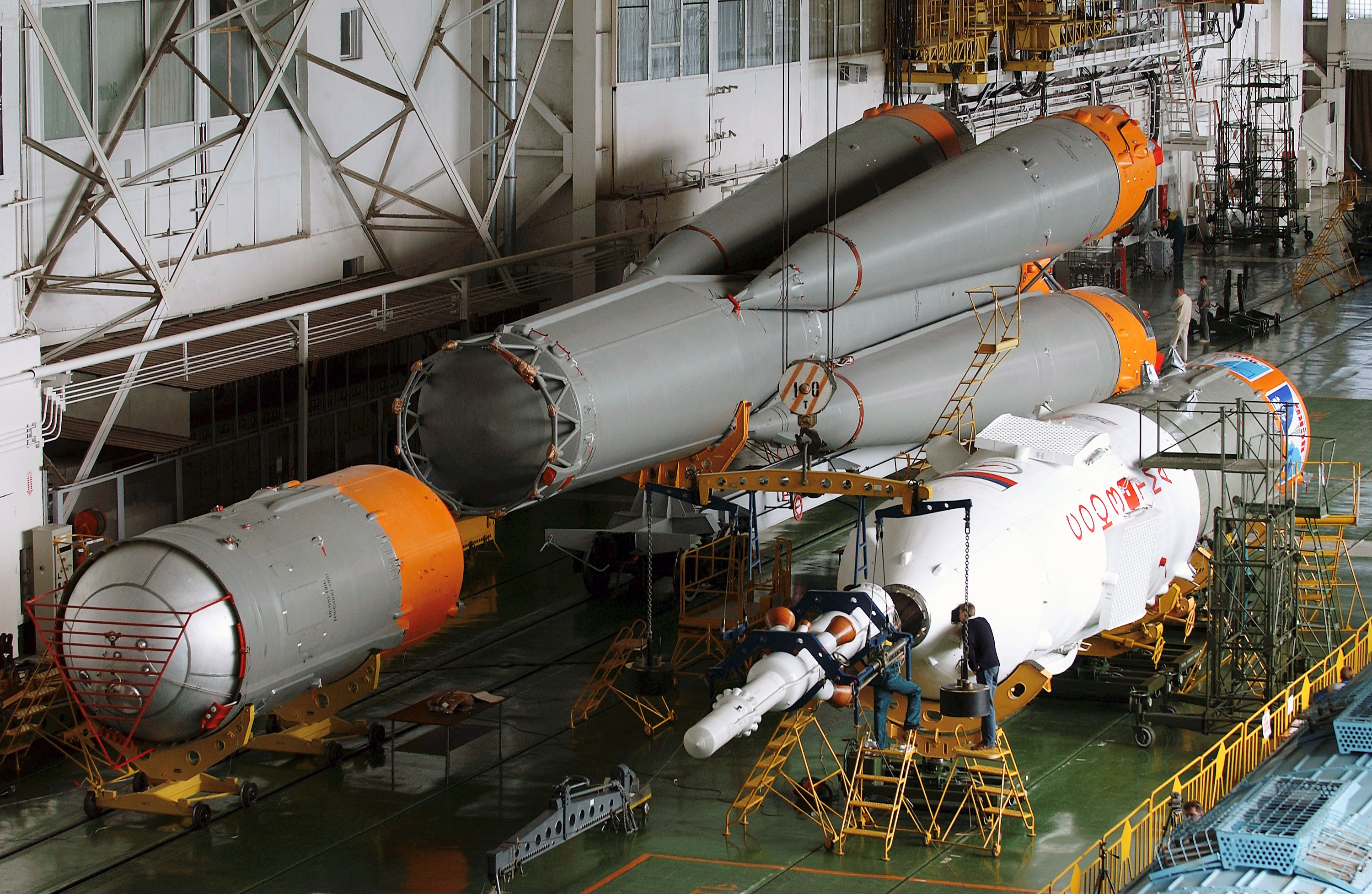 One of four first stage boosters